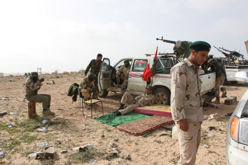 At the main checkpoint near the strategic oil town of Brega, men with what appeared to be better equipment and gear than their untrained comrades began to assemble. They wore emblems indicating their position as engineers or paratroopers and said they were defected "special forces" from Benghazi who were awaiting orders. Despite their more impressive appearance, they still seemed to lack the kind of discipline one might see in Western militaries, or perhaps even Gaddafi's own forces.